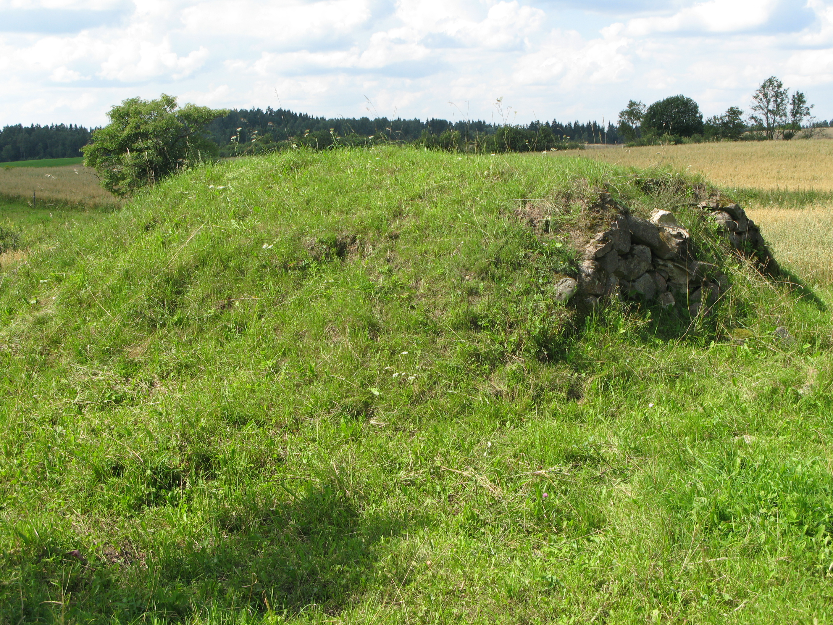 Ruins of a destructed town (Golubie), Poland, Suwalki region